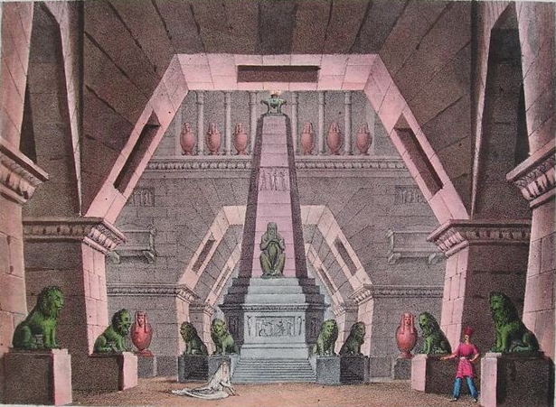 Gioachino Rossini - Semiramide - Alessandro Sanquirico - Milan 1824 - act 2, scene 11 - Interno sotterraneo del mausoleo di Nino